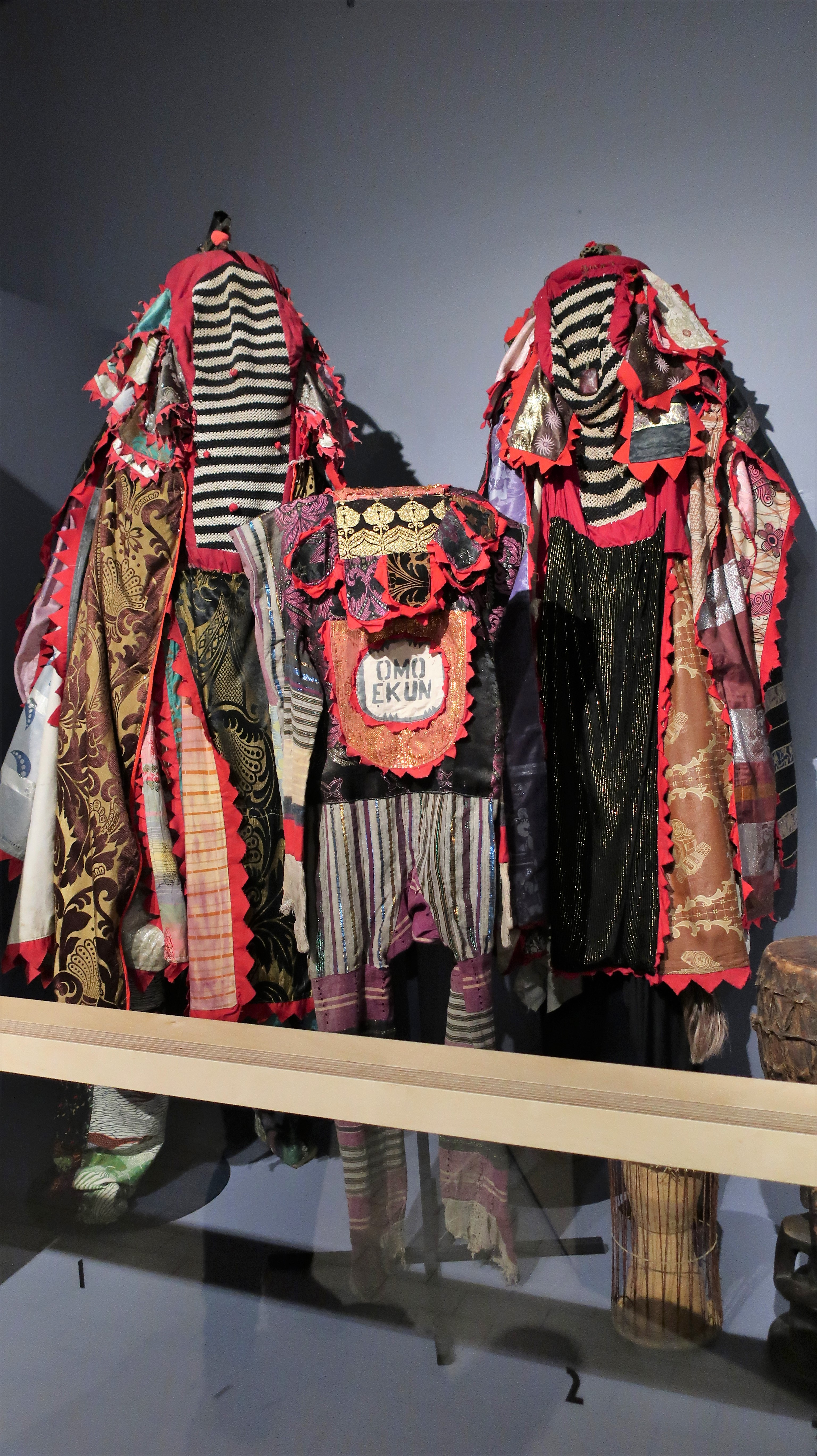 Egungun ensembles in Helinä Rautavaara Museum in Espoo Finland